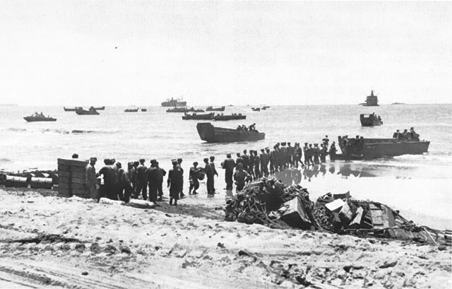 Troops unloading supplies at Aitape (Operation Persecution, April 1944)